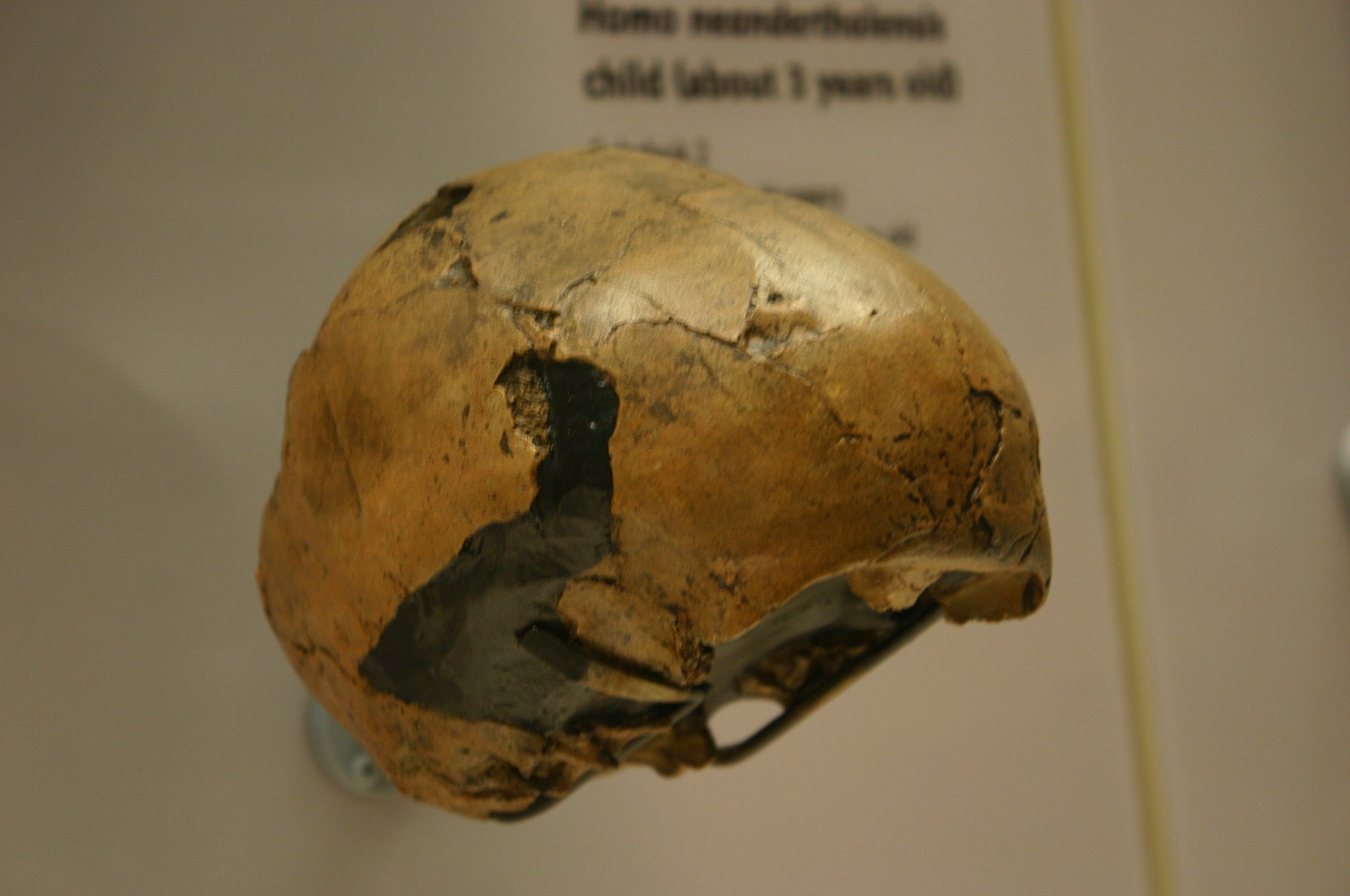 Taken at the David H. Koch Hall of Human Origins at the Smithsonian Natural History Museum.